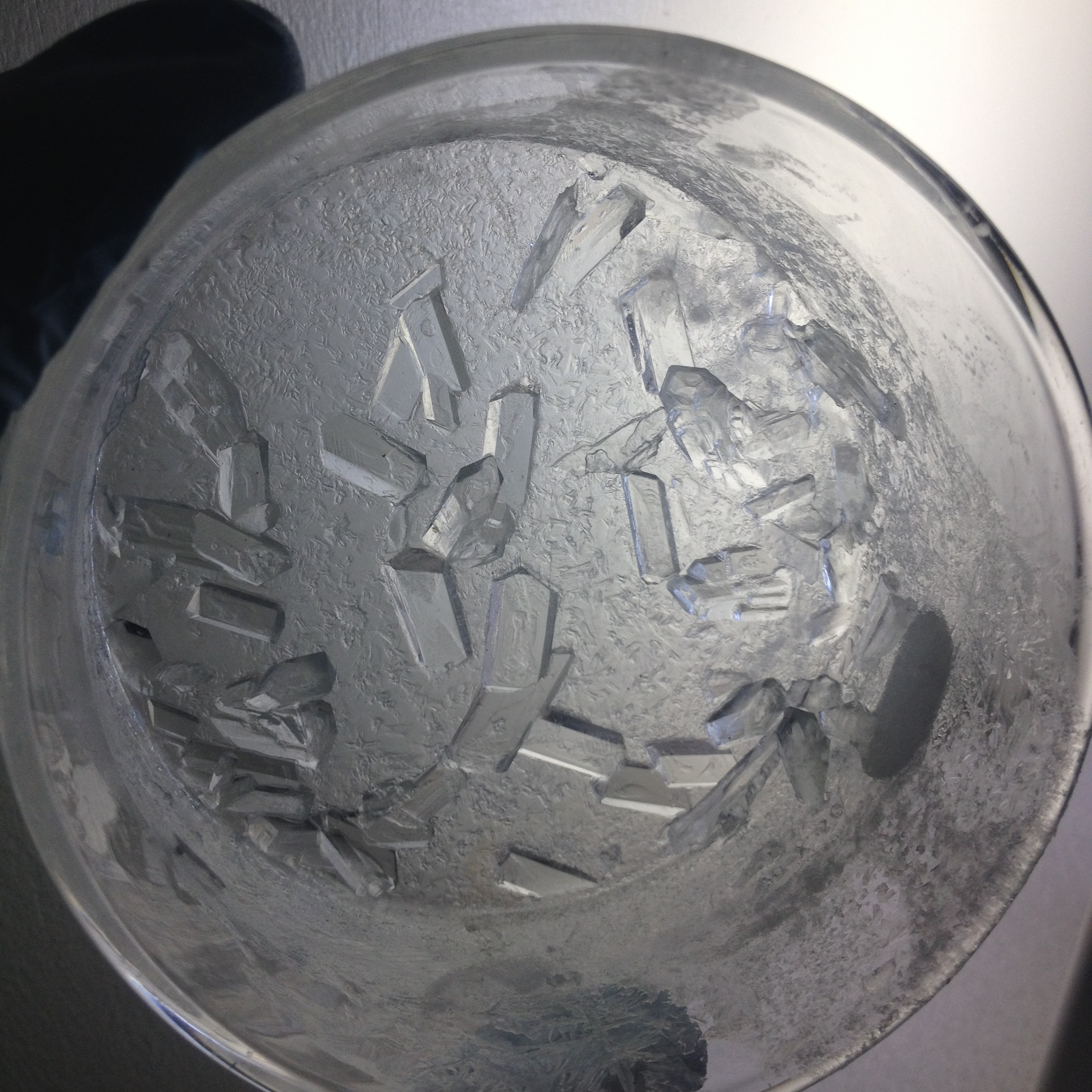 Pure nootkatone crystals grown at Evolva in Lexington, Kentucky. The longest pictured are approximately 1.5 centimeters in length.